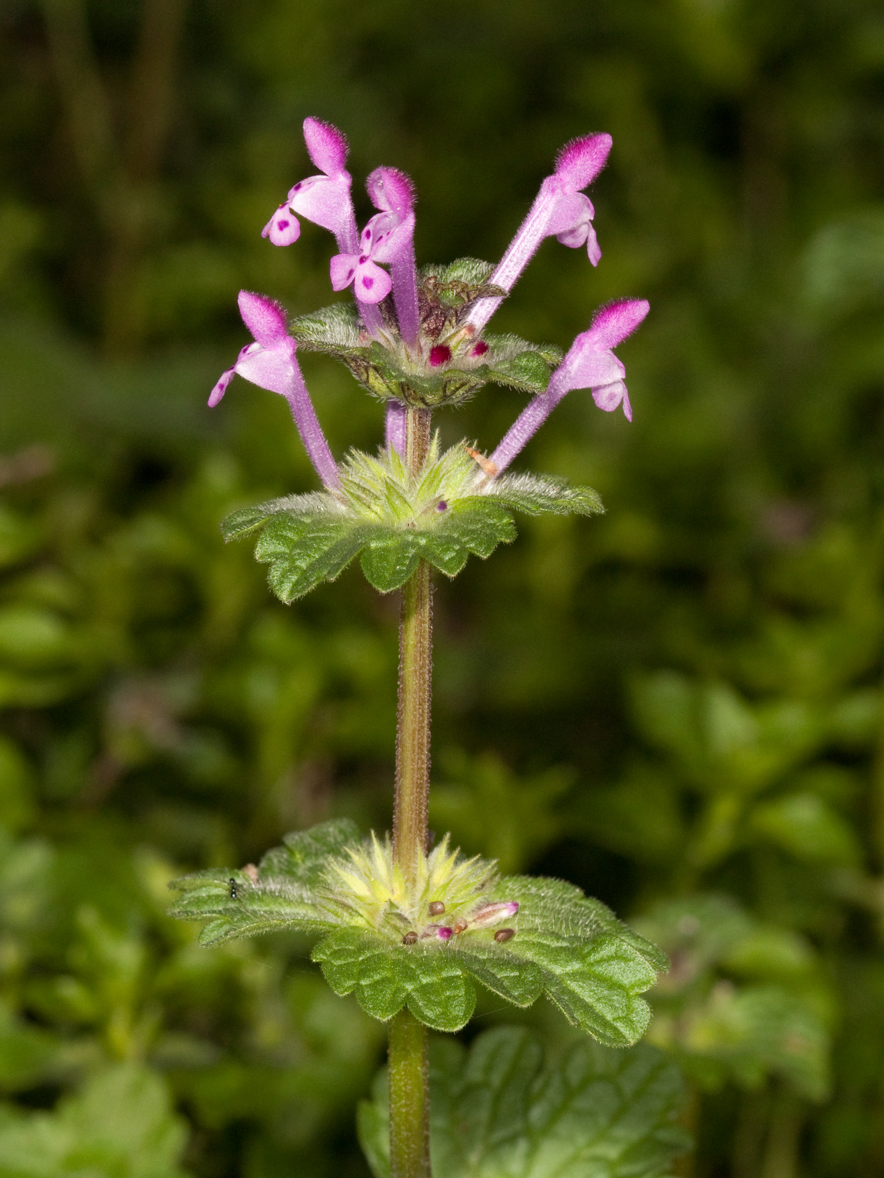 Henbit Deadnettle (Lamium amplexicaule) in Nashville, Tennessee